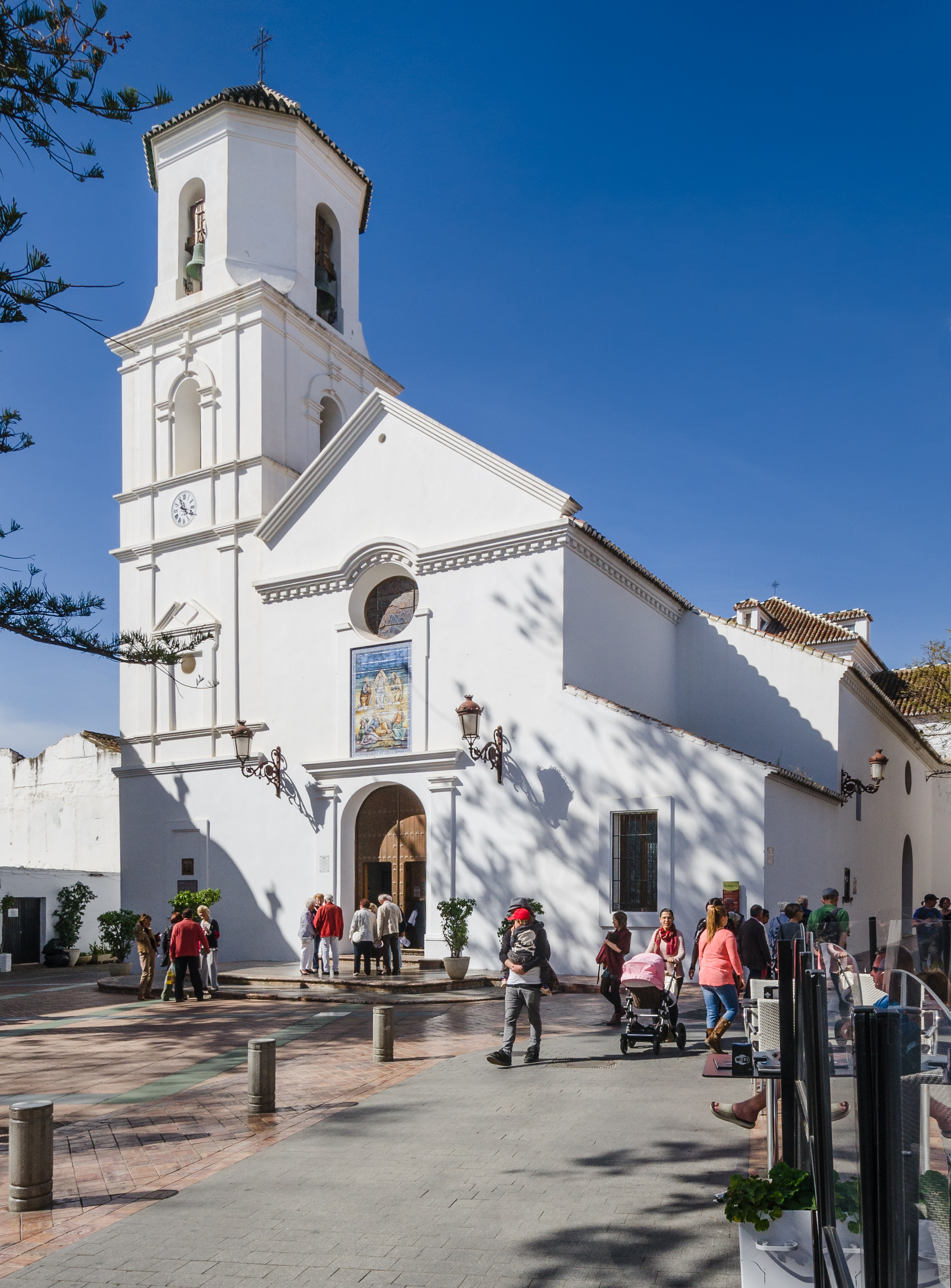 Church of El Salvador, Nerja